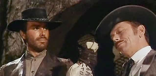 screenshot from the film Vado, l'ammazzo e torno (1967)